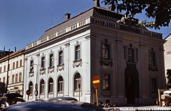 The branch of the Central bank of Sweden in Örebro